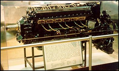 Packard V-1650